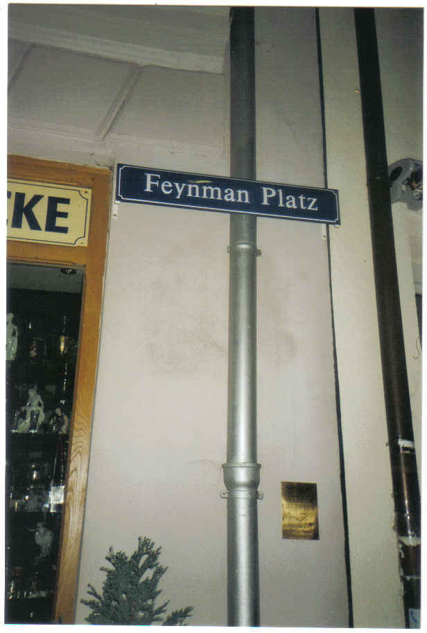 Inofficial street name sign of the Feynman-Square in Munich, Bavaria